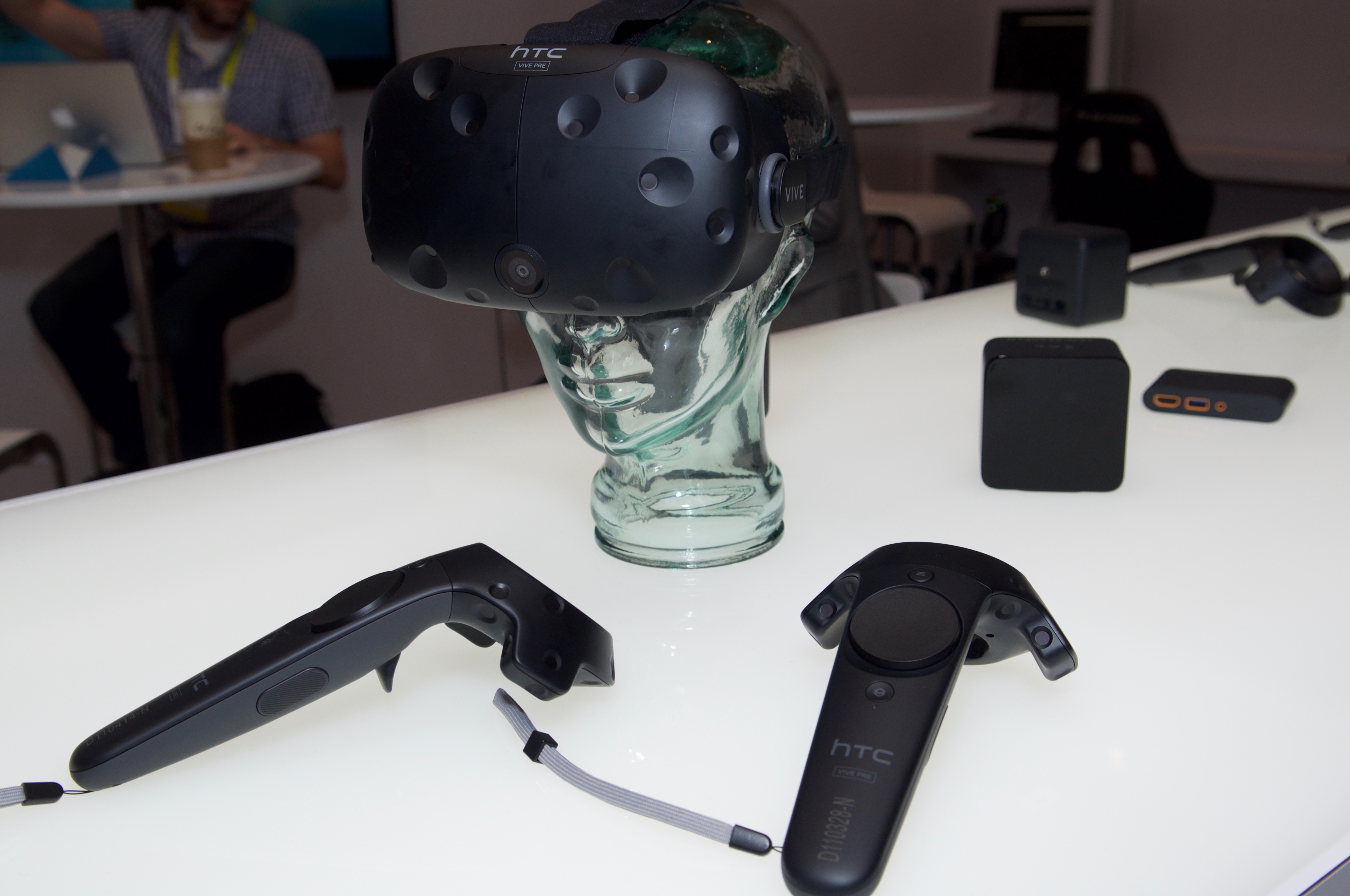 HTC's new Vive Pre virtual reality system: an HMD with an camera near the bottom rim; wireless, handheld controllers (foreground); and room sensors. The camera captures enough information to provide an AR-like experience, enabling the user to see and interact with physical objects.